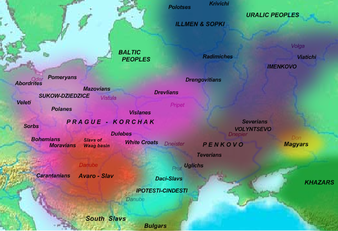 Archaeological cultures of Eastern Europe in the 8th century AD